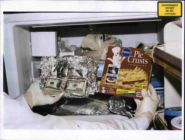 Cash found in freezer at Washington, D.C. home of Congressman William J. Jefferson of Louisiana. This photo was entered Wednesday 8 July 2009 as evidence showing what was seized on Aug. 3, 2005, from the freezer of the Washington home of then-Rep. William Jefferson, D-New Orleans. Jurors in the bribery trial of Jefferson, who lost his re-election bid last year, saw photos of the infamous frozen cash. It was wrapped in $10,000 increments and concealed in boxes of Pillsbury pie crust and Boca burgers